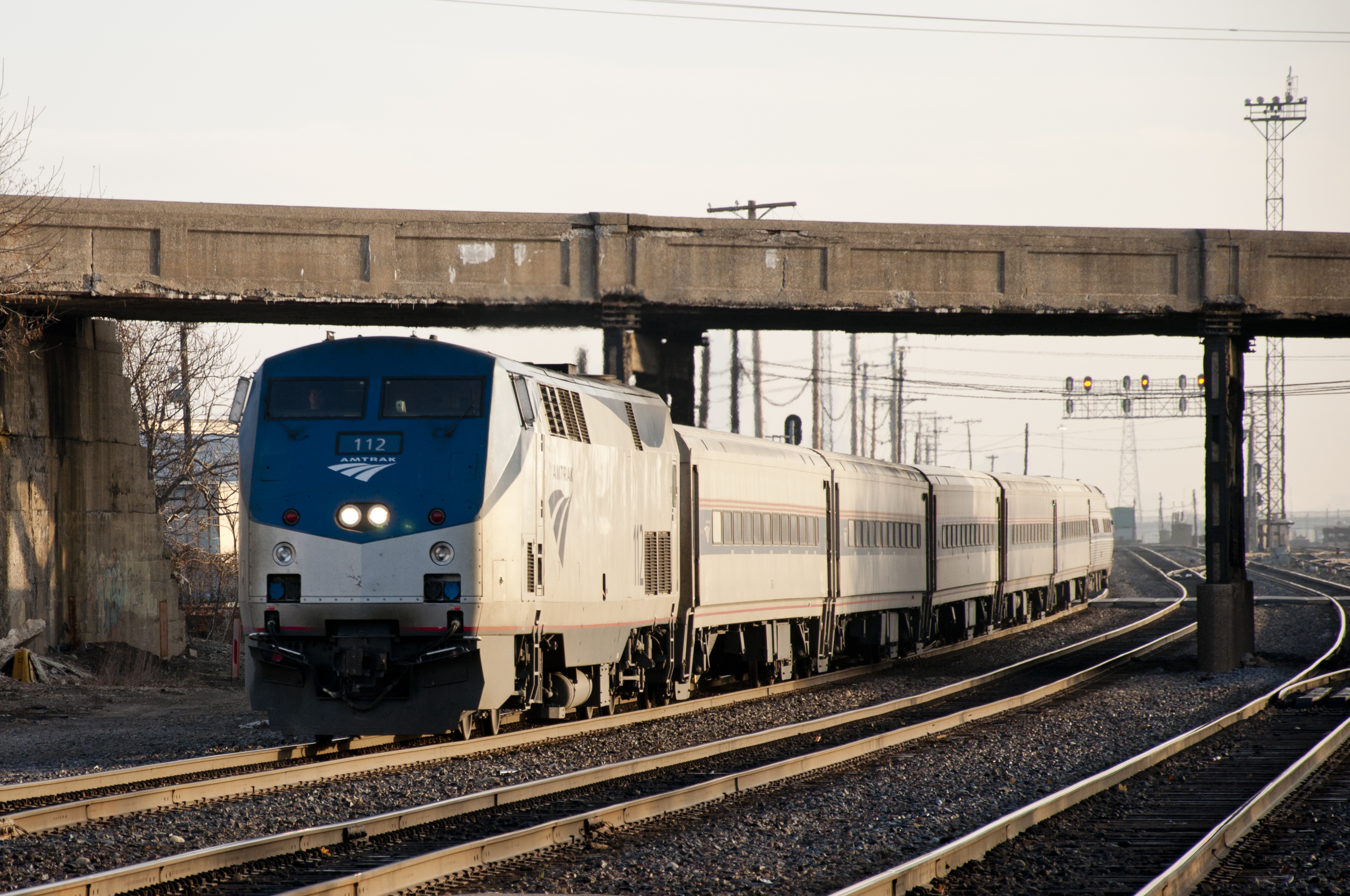 Amtrak No. 381 (Carl Sandburg) on the BNSF Chicago Subdivision